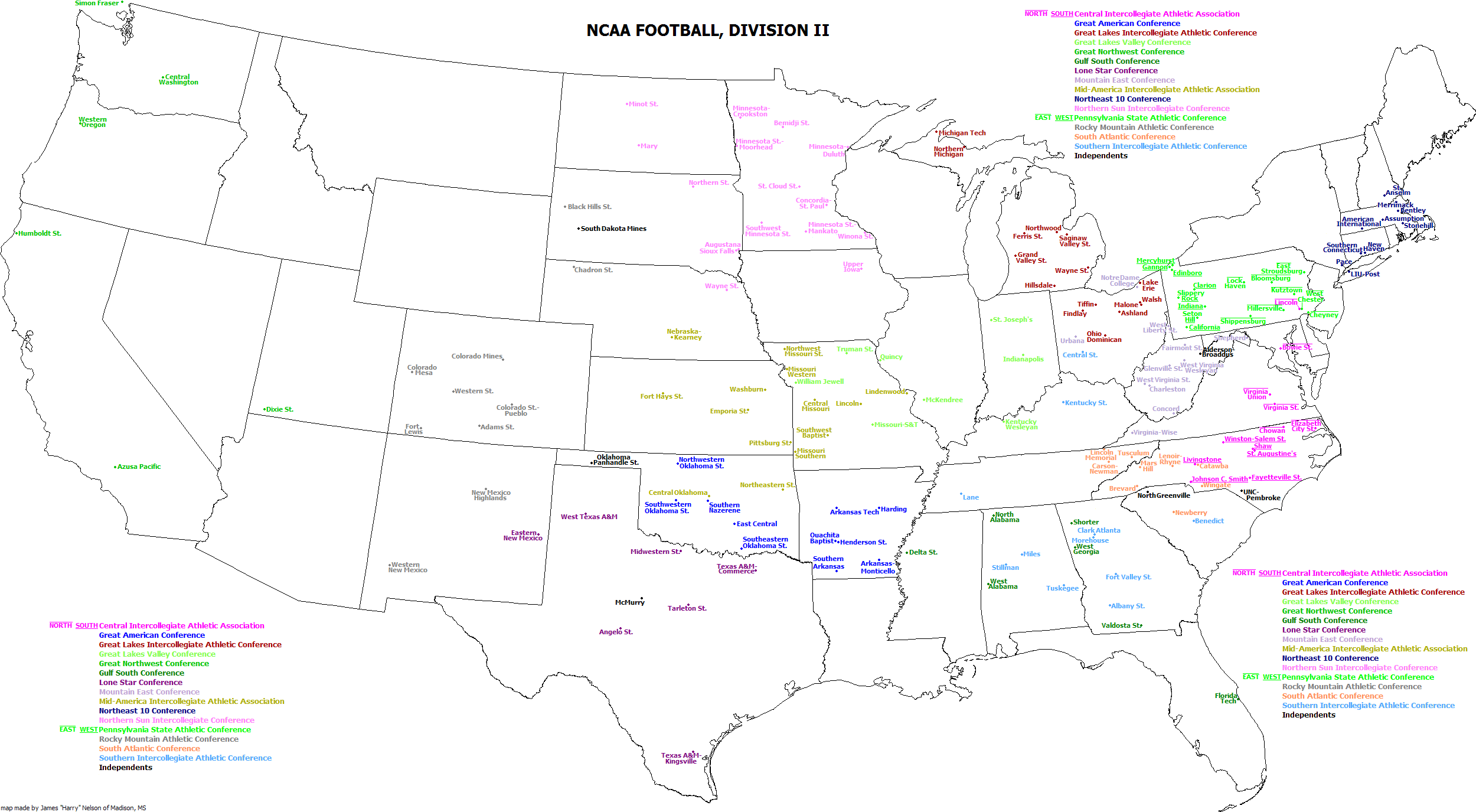 A map of all Division II football schools